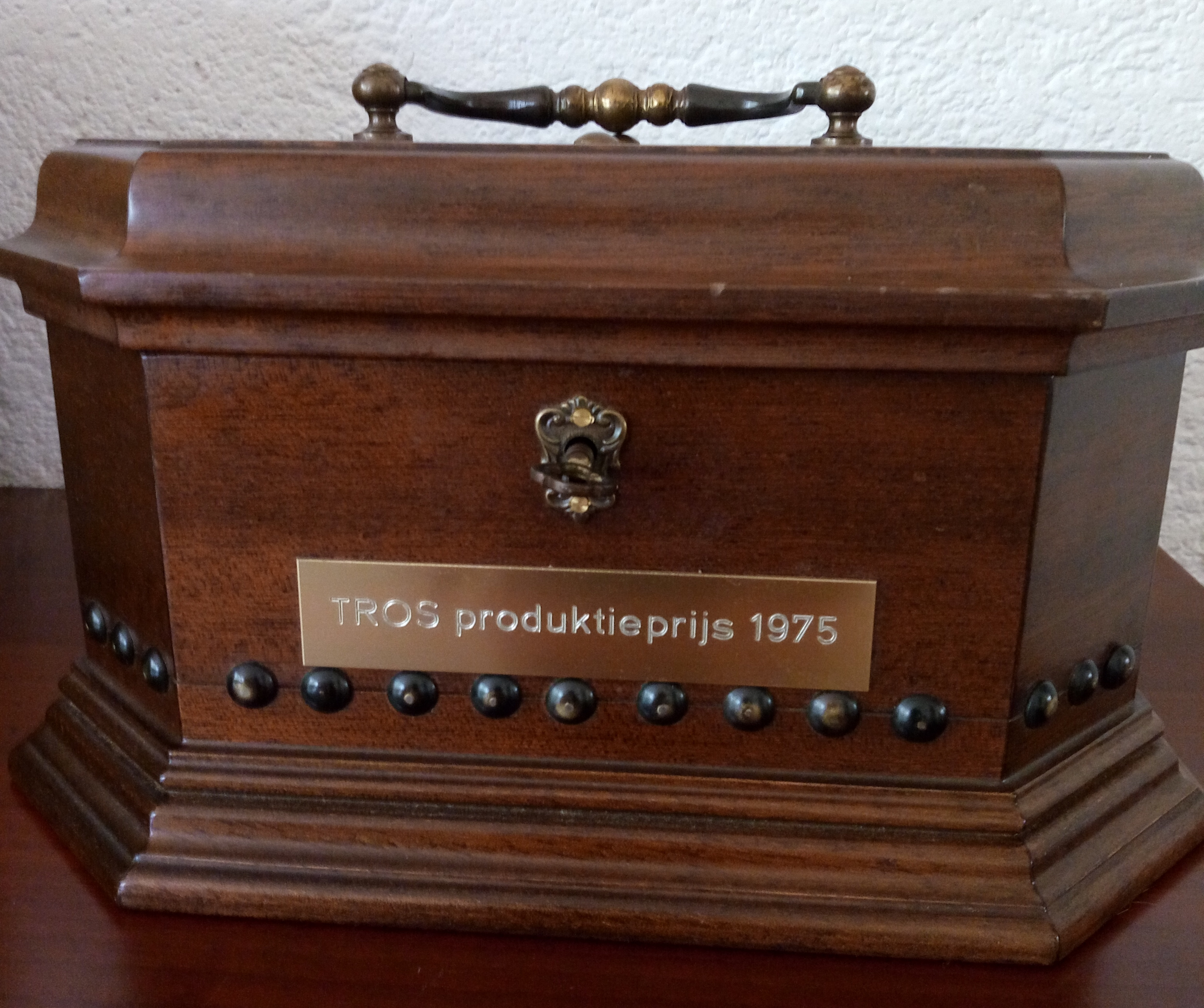 TROS Produktieprijs, Dutch music award, in this case awarded to Jack Jersey